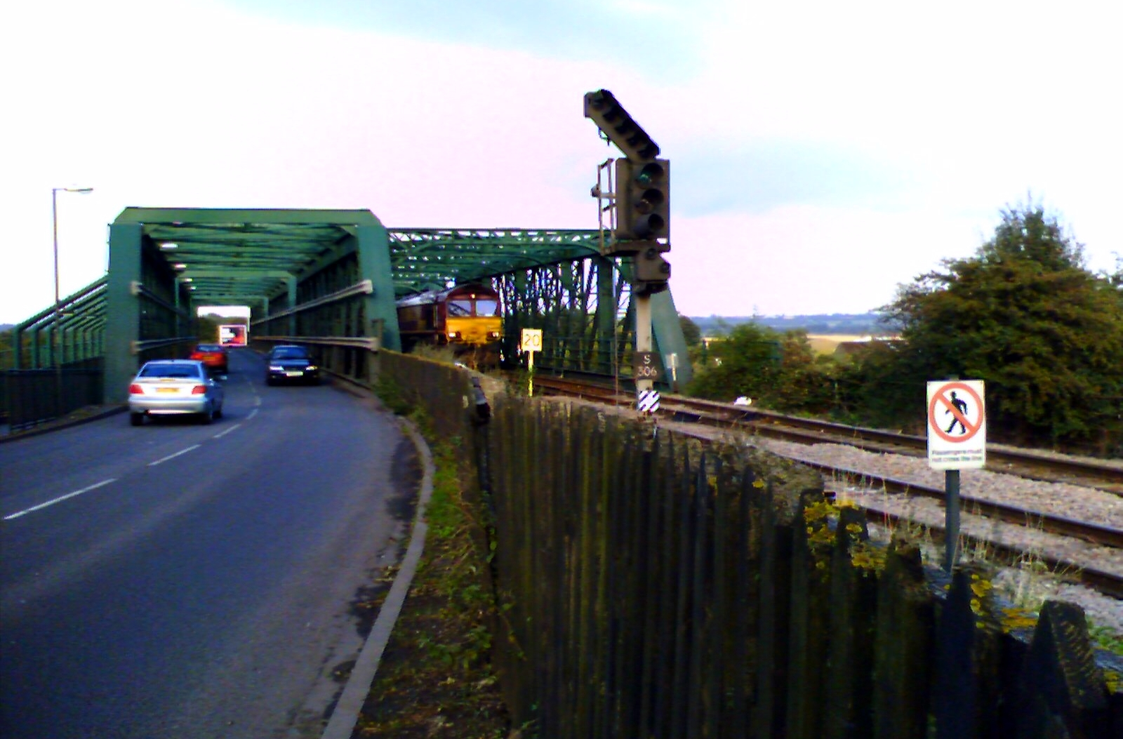 King George V Bridge, Keadby. Photo by E Asterion u talking to me?